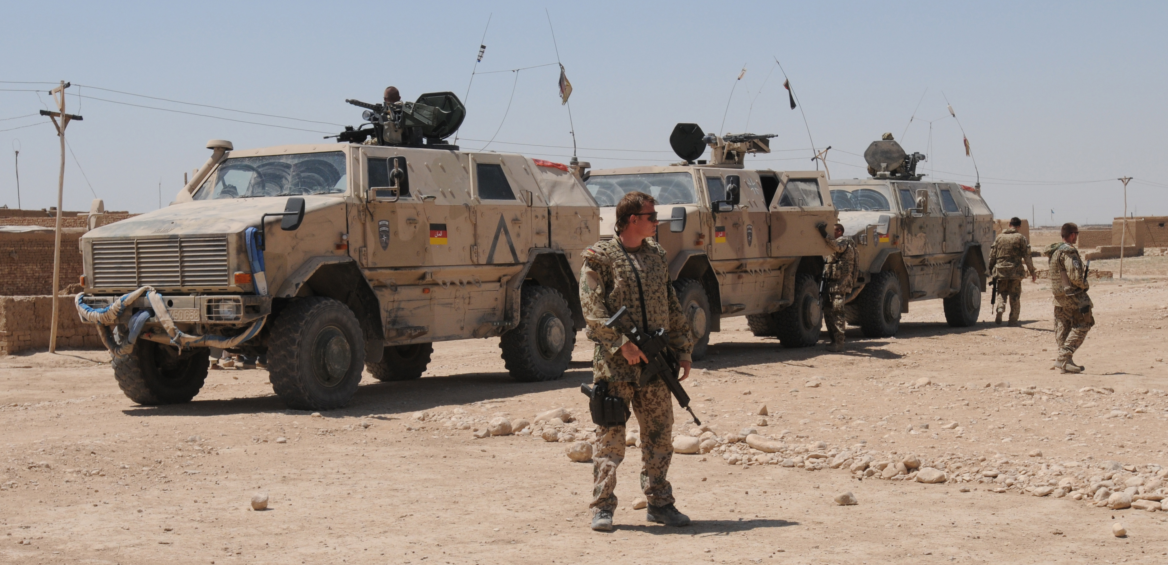 MAZAR-E-SHARIF, Afghanistan –German Army Soldiers, based out of Camp Marmal, conduct a surveillance of a nearby village, during a daily security patrol, where they met with elders. The patrols ensure safety, security and foster good relations with the Afghans. Official Photo by Petty Officer First Class Ryan Tabios, ISAF HQ Public Affairs